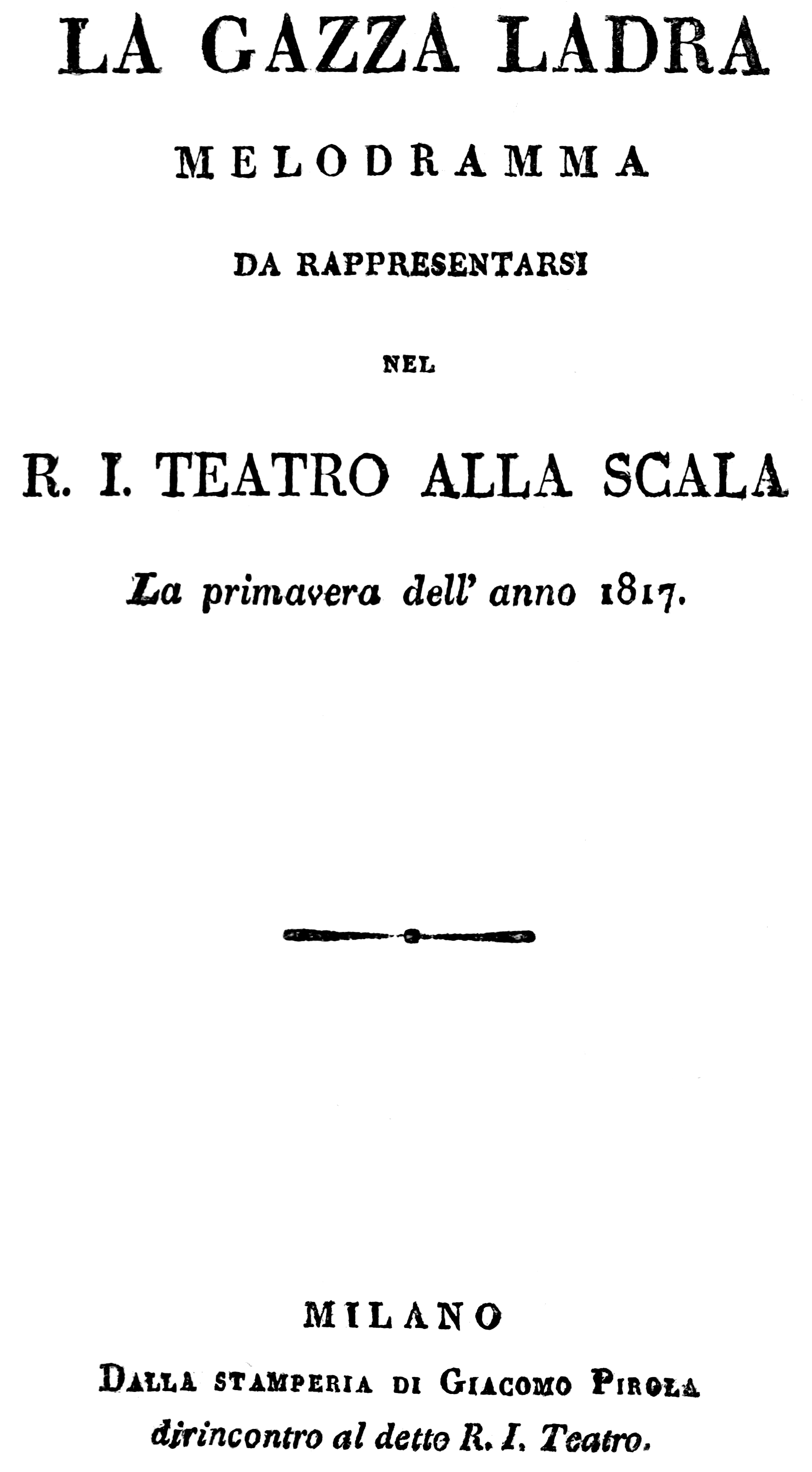 Gioachino Rossini - La gazza ladra - titlepage of the libretto - Milan 1817